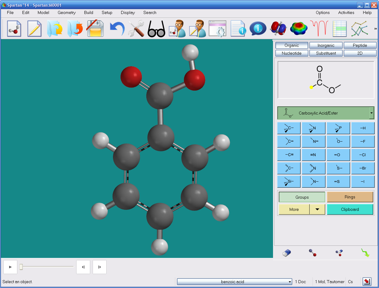 screen capture of the Spartan'14 Windows GUI displaying benzoic acid and the organic builder